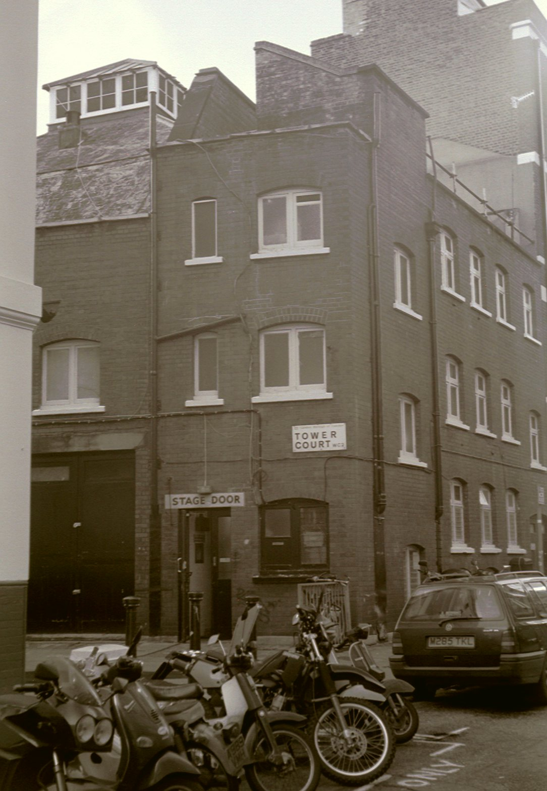 stage door of the Ambassadors Theatre, West Street, London (formerly New Ambassadors)